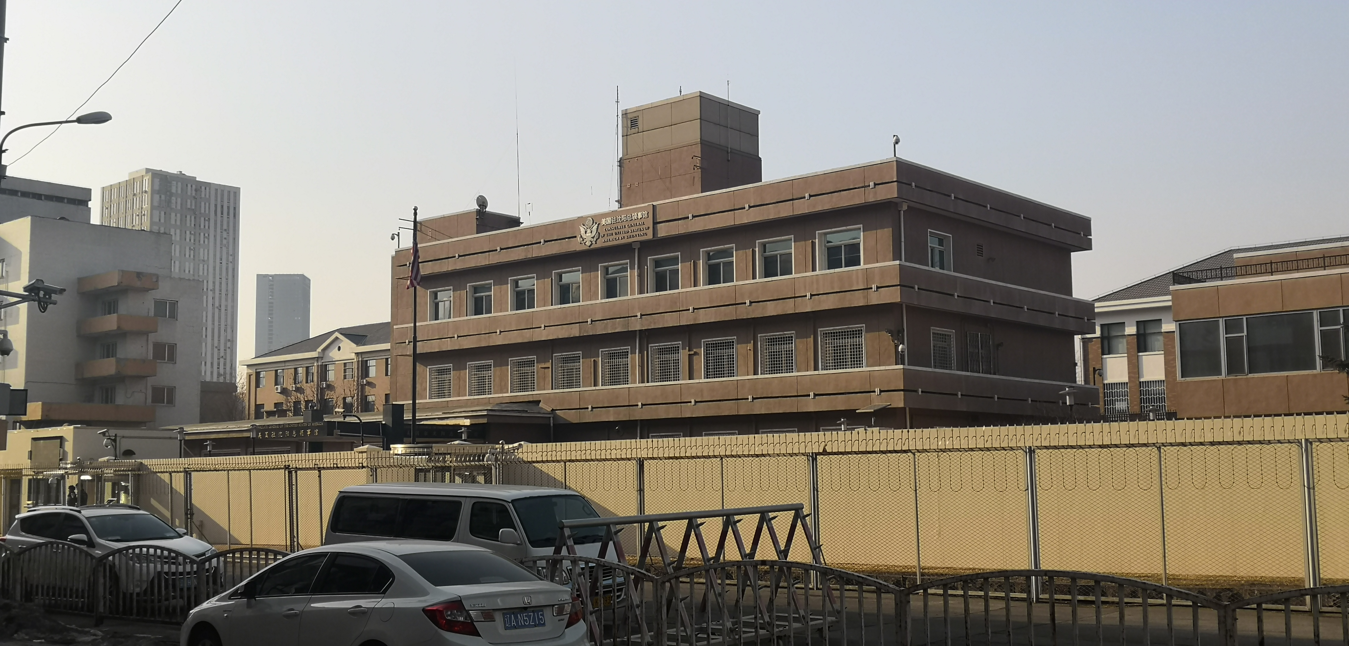 USA embassy of Shenyang,shot from outside.